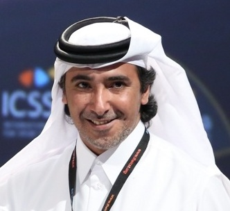 Photo of ICSS President Mohammed Hanzab